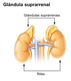 adrenal glands labelled in Galician